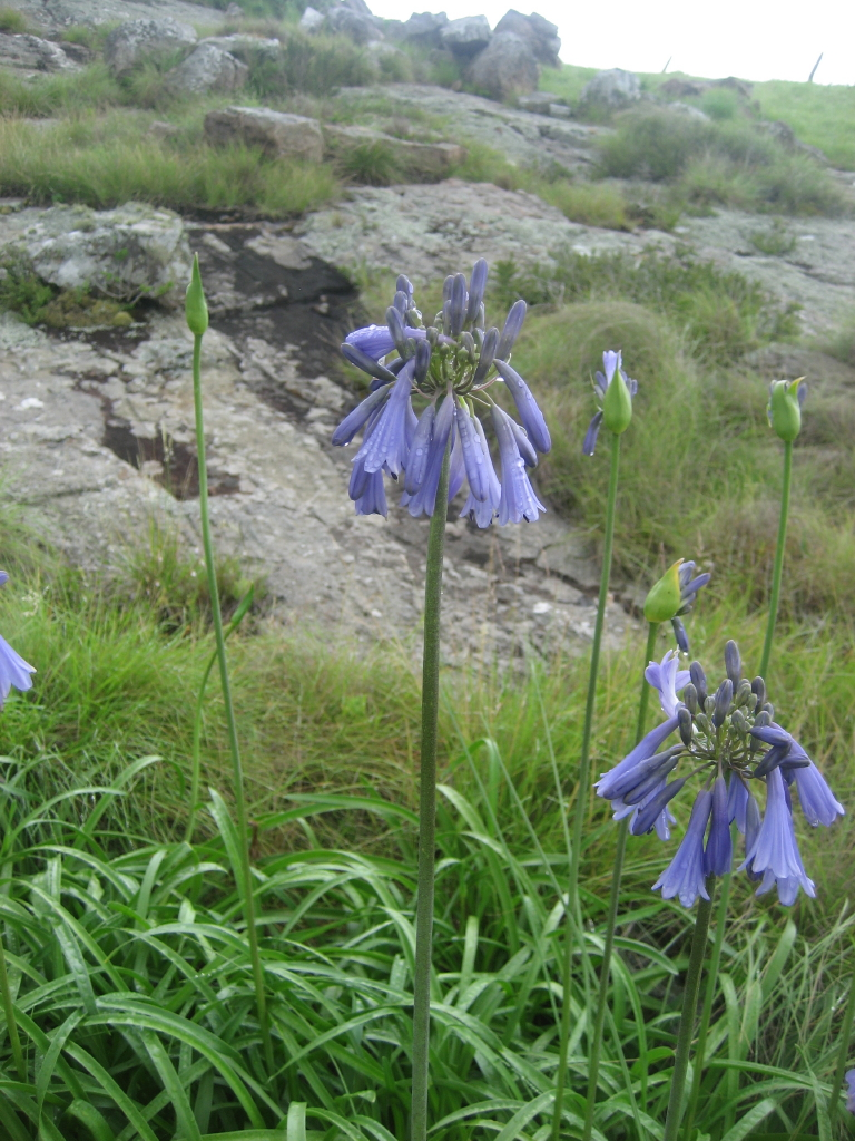 Agapanthus inapertus in its natural habitat on Mount Ponduine close to Namaacha, Mozambique.